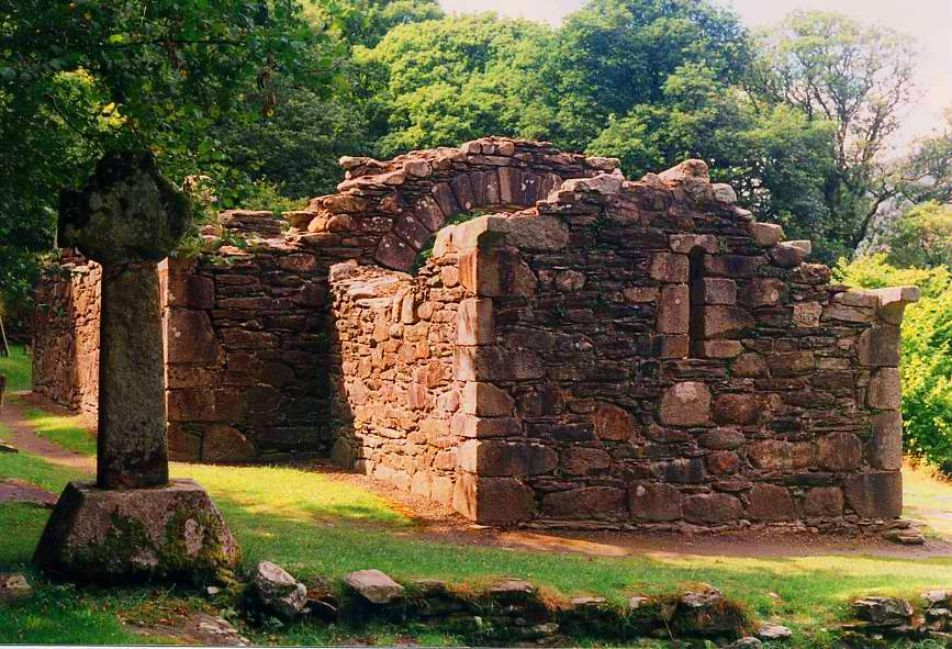 Glendalough, Lower Valley